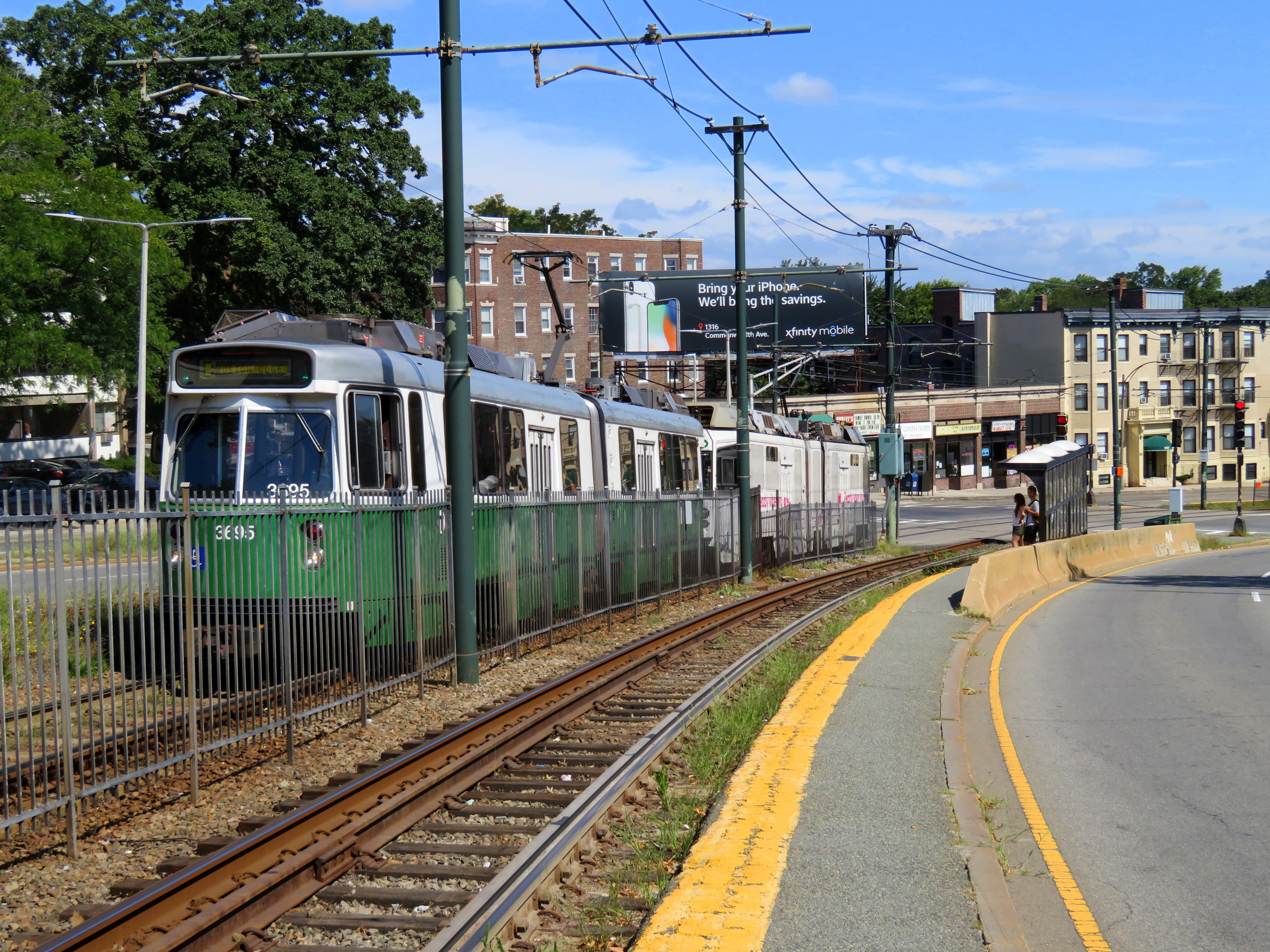 An outbound train passes the inbound platform at Warren Street station in August 2018